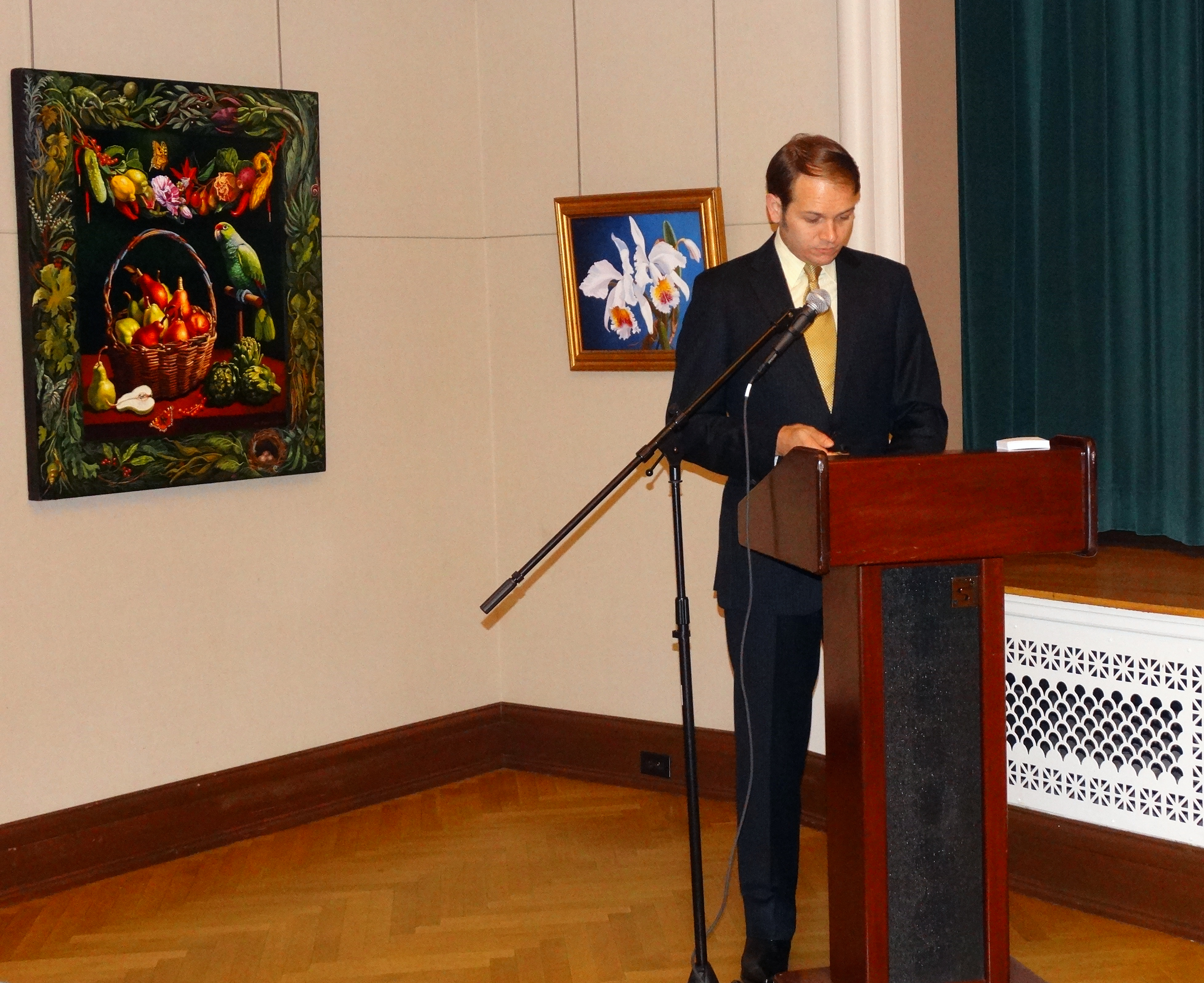 Eric Ian Hornak Spoutz lecturing at the Washington County Museum of Fine Arts in Hagerstown, Maryland on September 19, 2013. Paintings by Ian Hornak are visible in the background. Photo credit: Natasha M. Spoutz